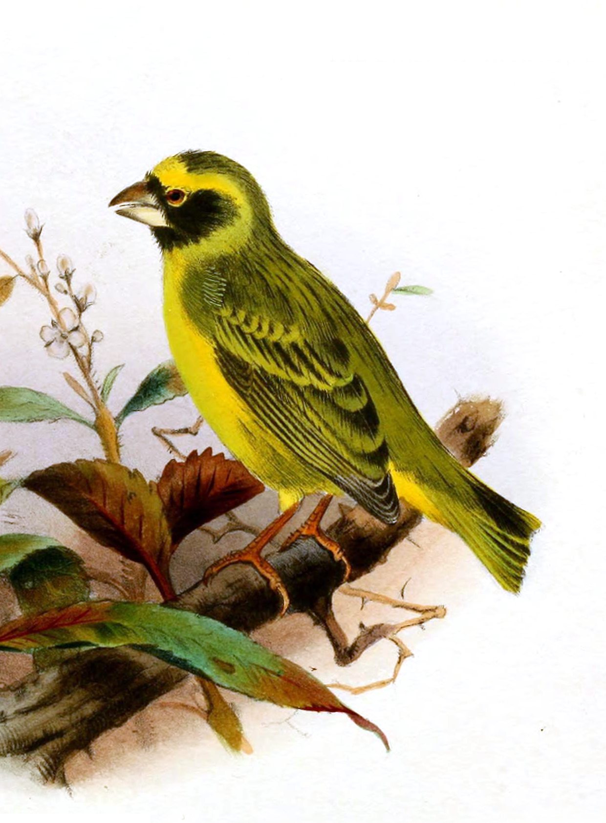 Chrysomitris totta, Serinus capistratus